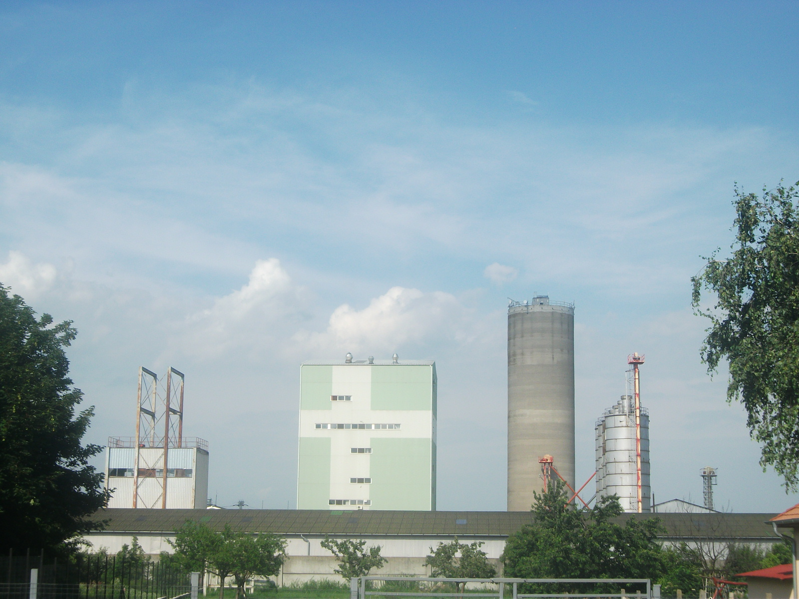 PROVIMI Hungary Takarmánygyártó és Forgalmazó Zrt. buildings.